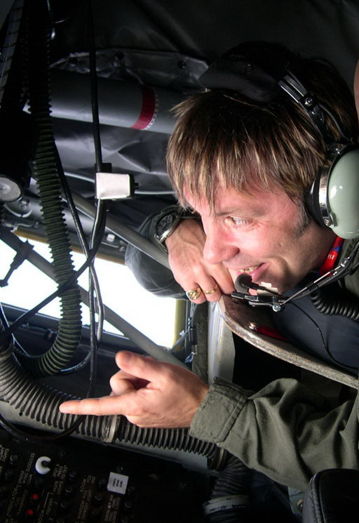 Iron Maiden singer Bruce Dickinson during the filming of a five-part series for the Discovery Channel titled "Flying Heavy Metal" in pilot outfit.